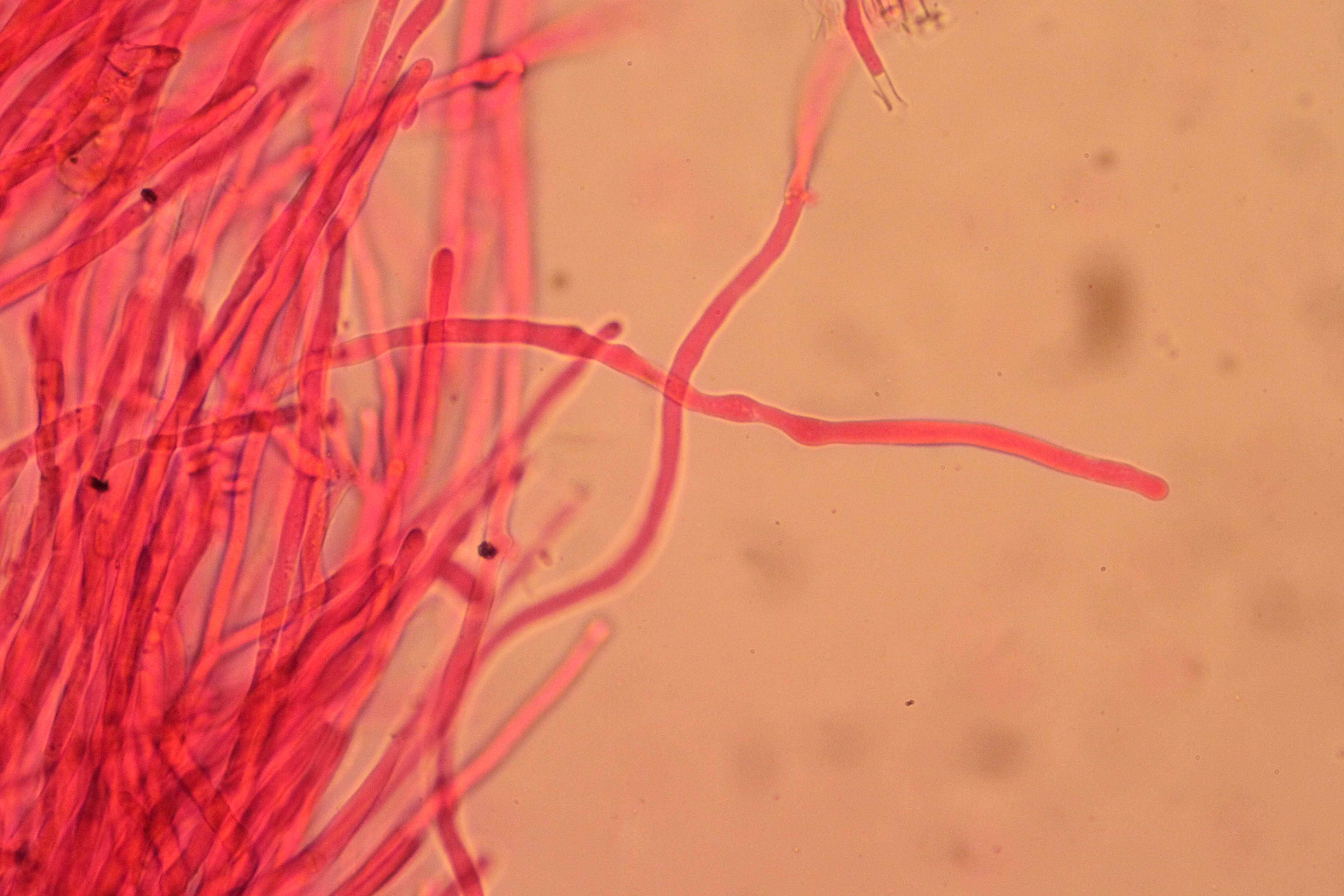 Microscopy image of the hyphae of the polypore fungus Pycnoporellus alboluteus (Ellis & Everh.) Kotl. & Pouzar. The hyphae lack clamps and are monomitic.